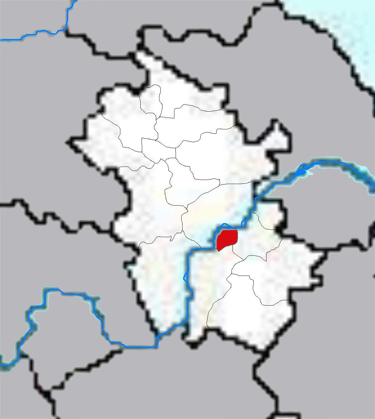 Maps of Anhui Province of China